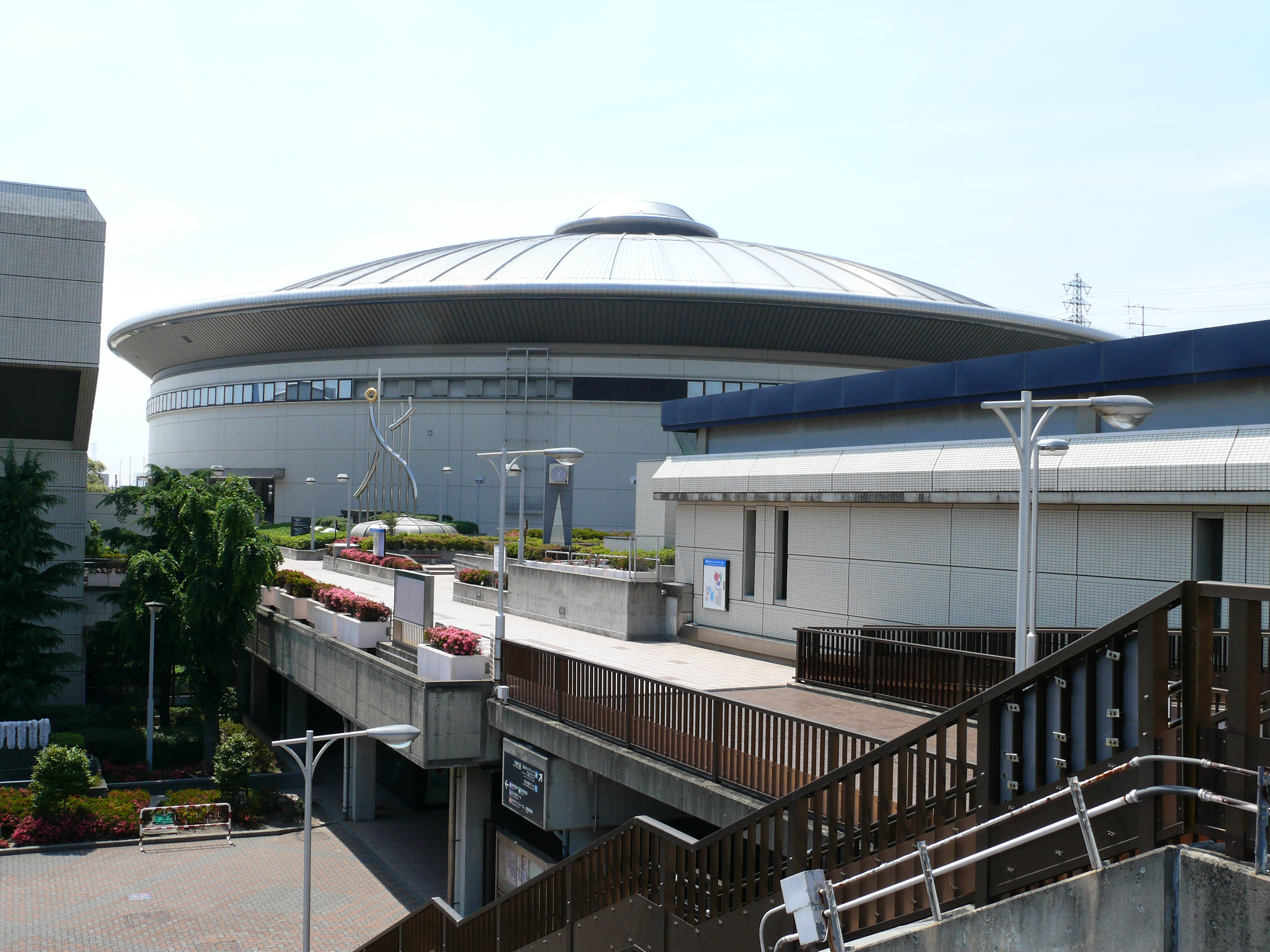 Nagoya City Sports Complex.